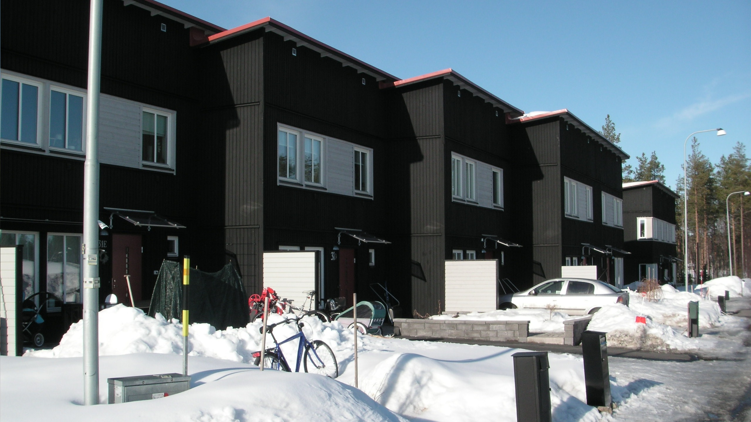 Terraced houses in neighborhood "Nydalaviken" in Umeå, Sweden.